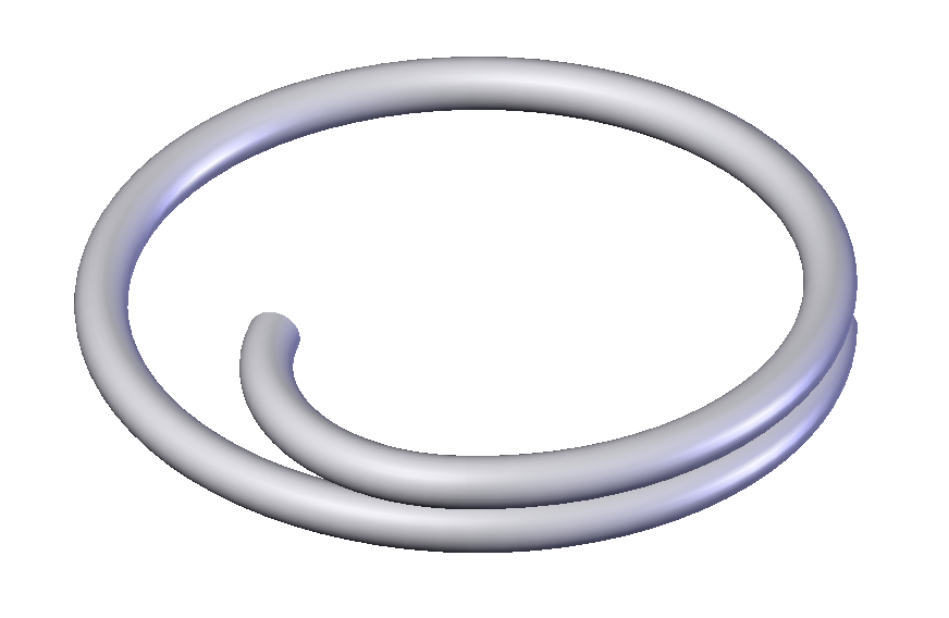 A 3D model of a circle cotter or cotter ring.